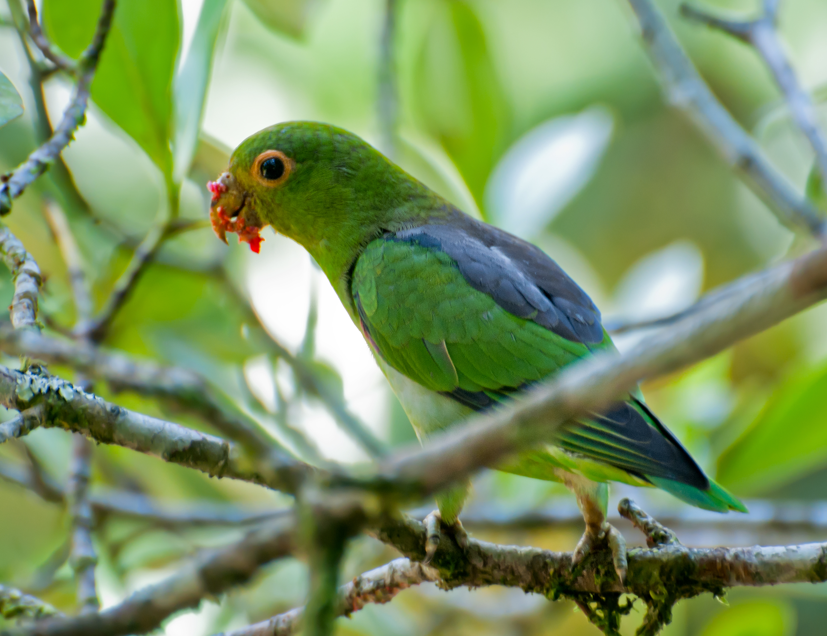 A Brown-backed Parrotlet in Ubatuba, São Paulo, Brazil.